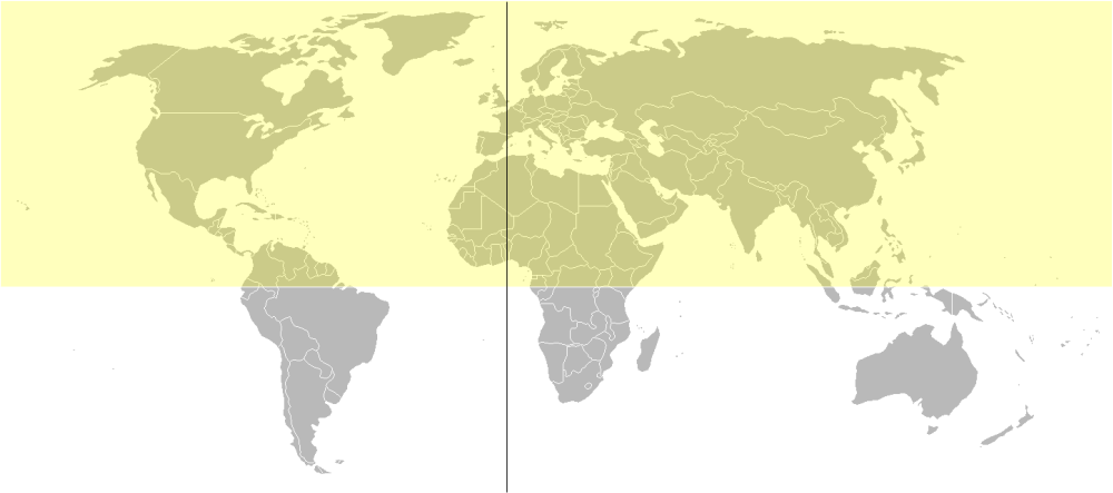 Map indicating the Northern Hemisphere of the Earth.